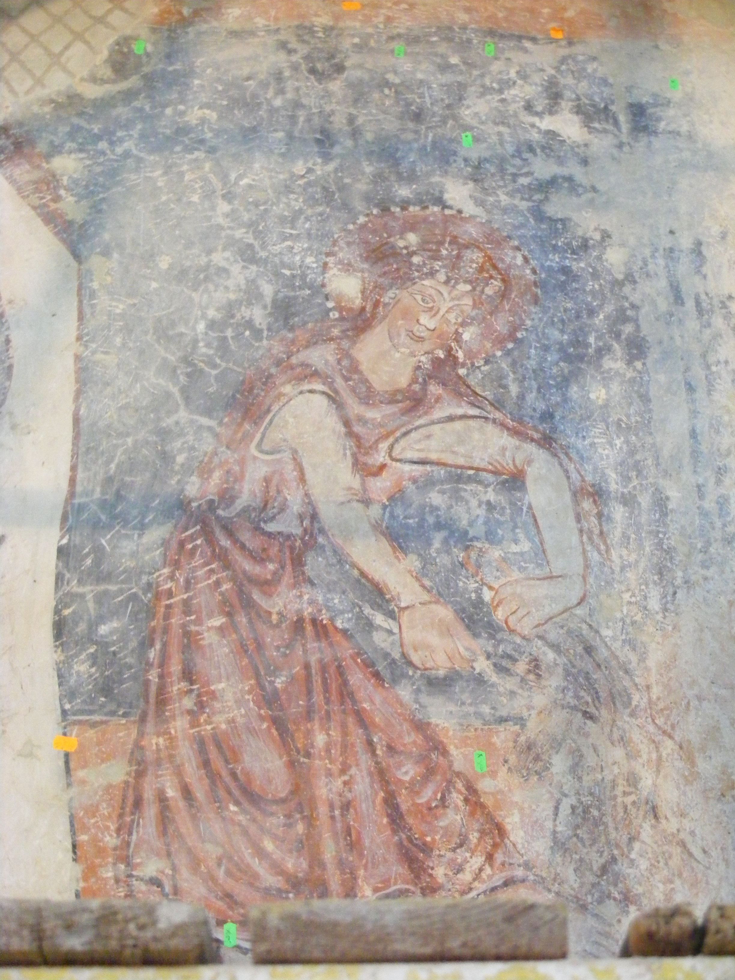 The picture of Saint Ladislaus hungarian king, on the Bögöz (Mugeni) church'es wall.